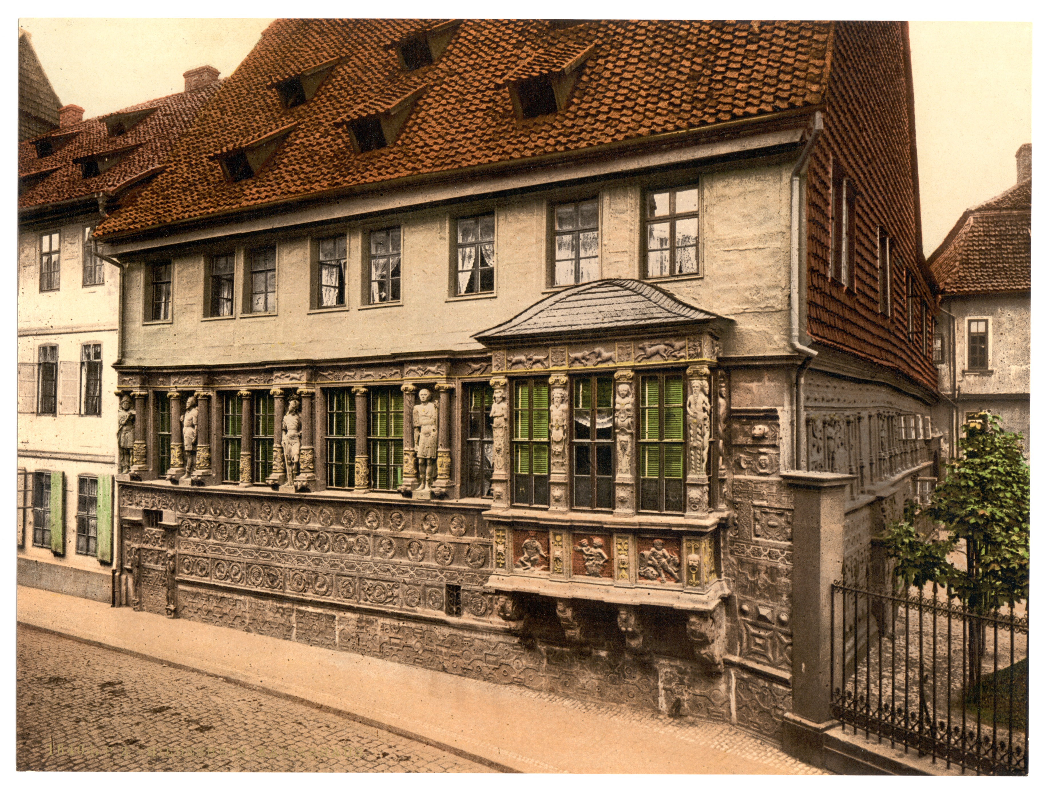 Title from the Detroit Publishing Co., catalogue J-foreign section. Detroit, Mich. : Detroit Photographic Company, 1905.; Print no. "16404".; Forms part of: Views of Germany in the Photochrom print collection.